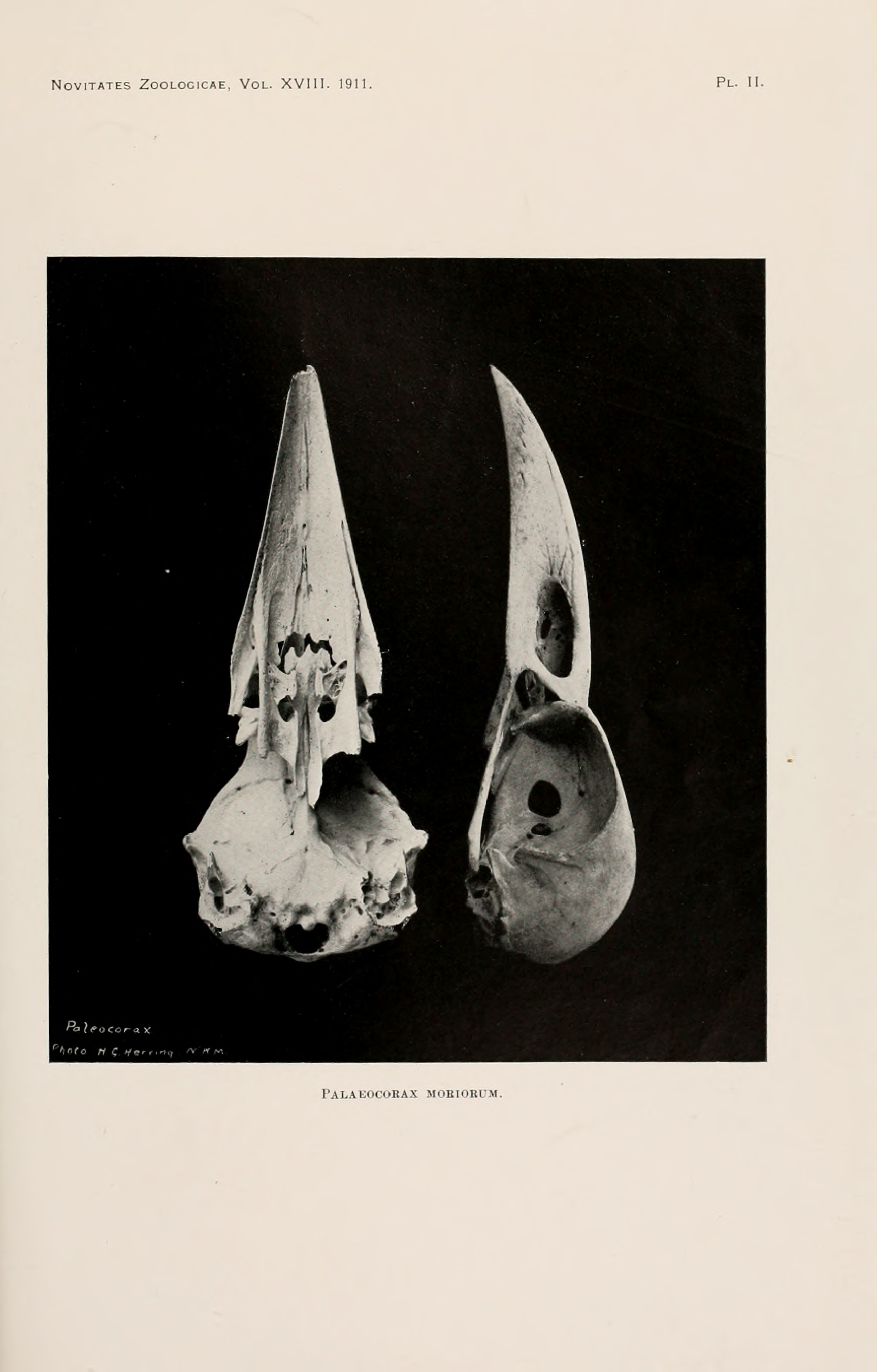 Chatham Islands Raven, skulls from ventral (left) and left lateral (right)